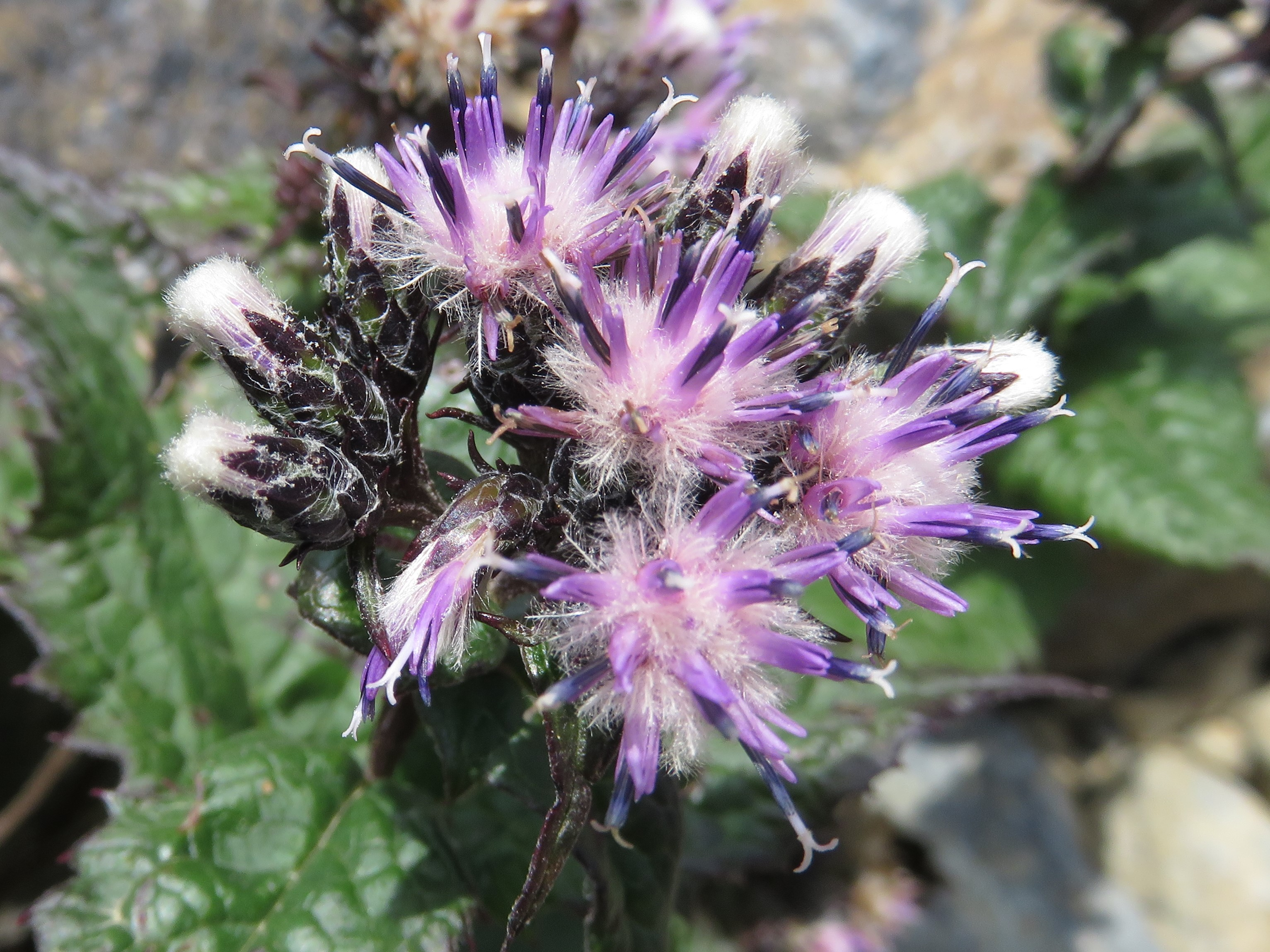 Saussurea riederi subsp. yezoensis, Mount Hayachine, Iwate pref., Japan